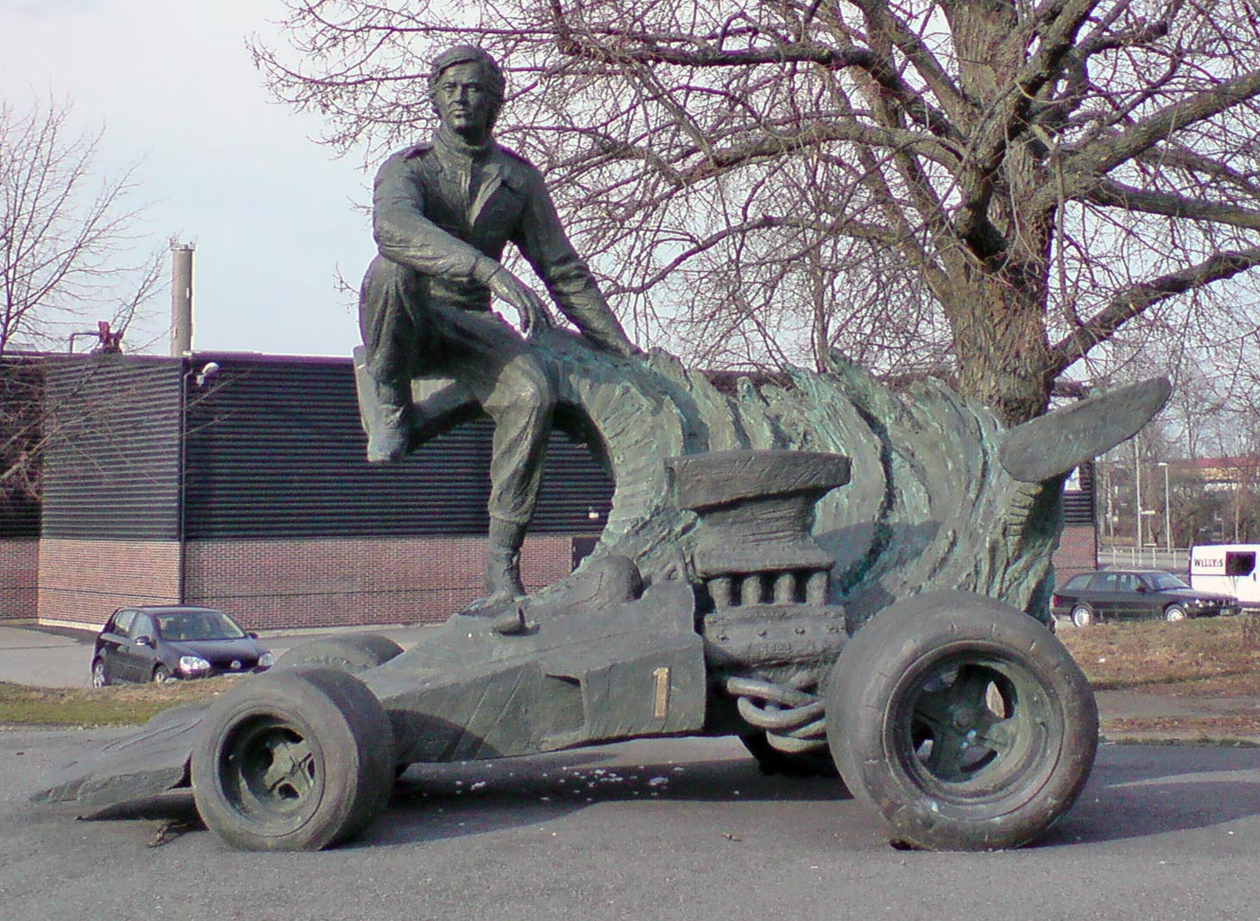 Statue of the Swedish racing driver Ronnie Peterson in Almby, Örebro, Sweden. Artist: Richard Brixel. Unveiled in August 2003. Object location59° 15′ 42.95″ N, 15° 14′ 17.23″ E